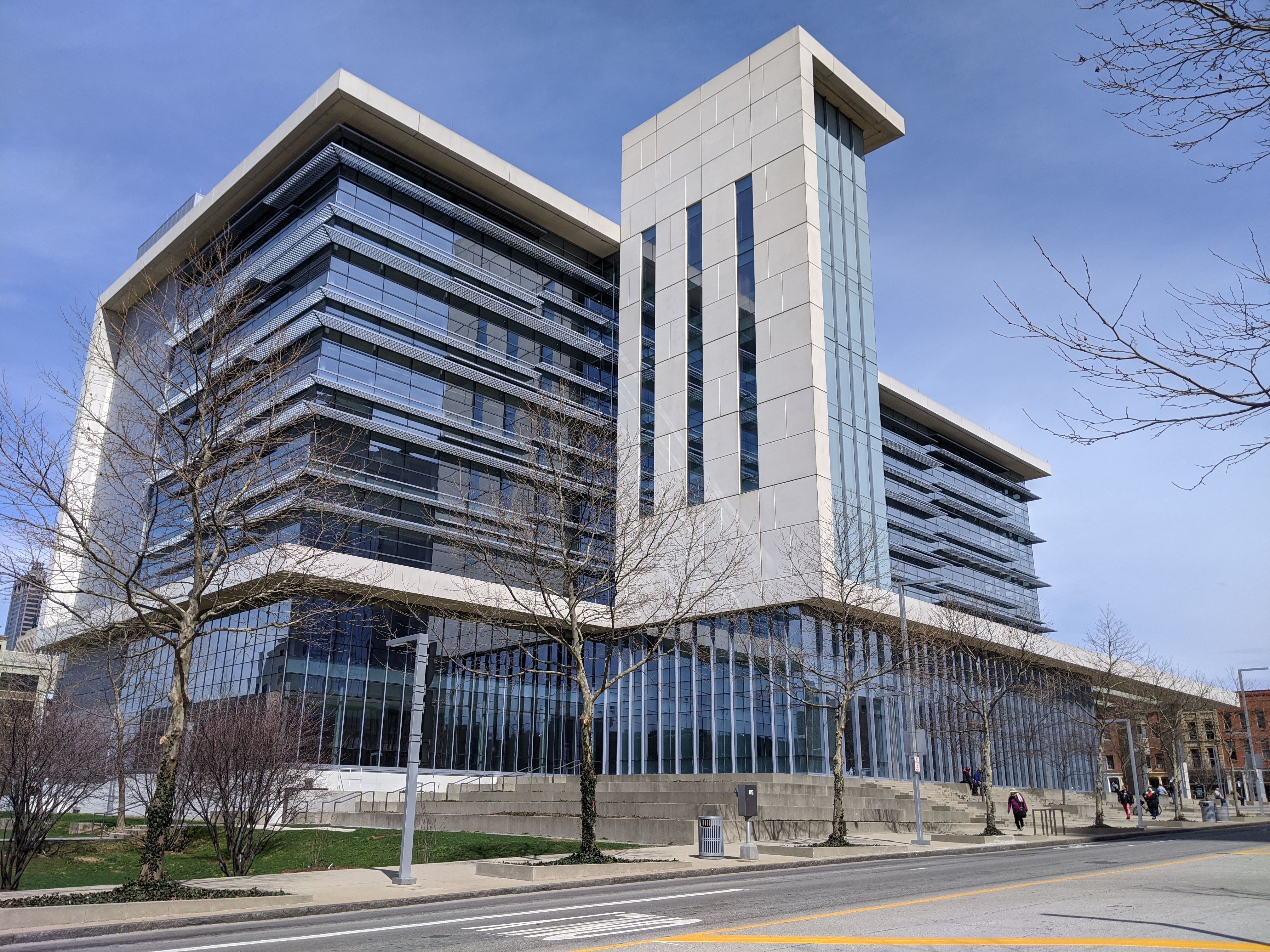 Franklin County Courthouse in Columbus, Ohio.